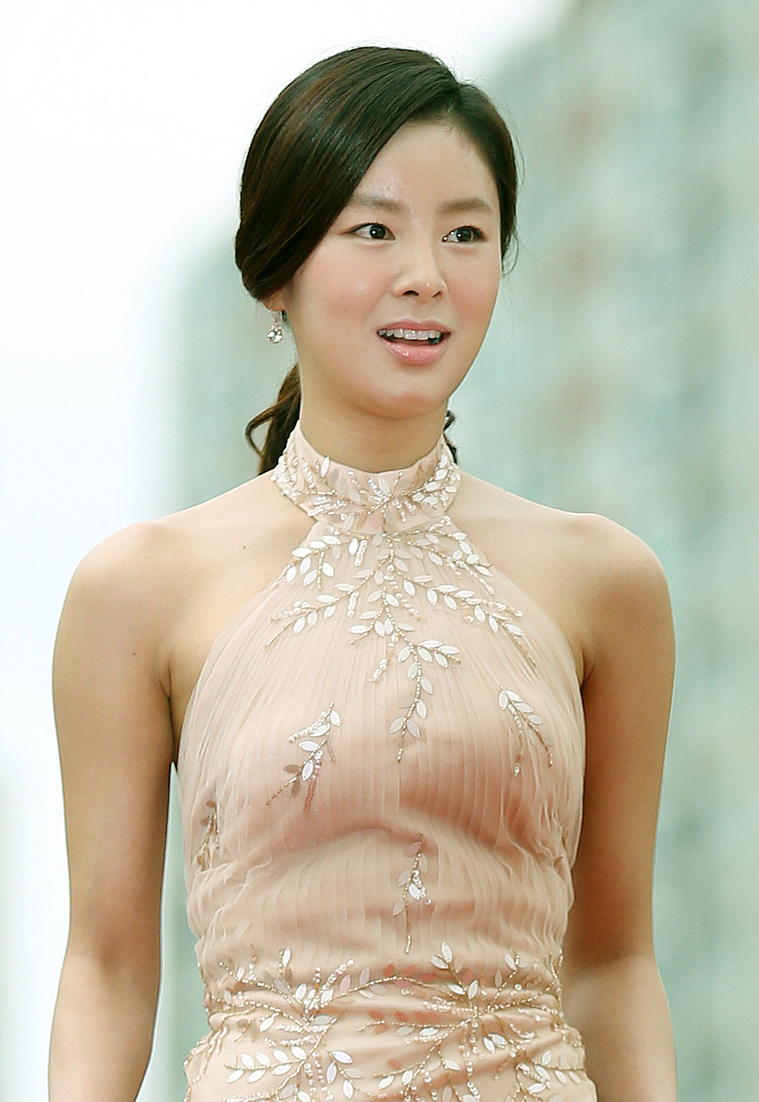 Actress Han Hye-rin arrives at the red carpet event of the Pifan in Bucheon on July 17, 2014